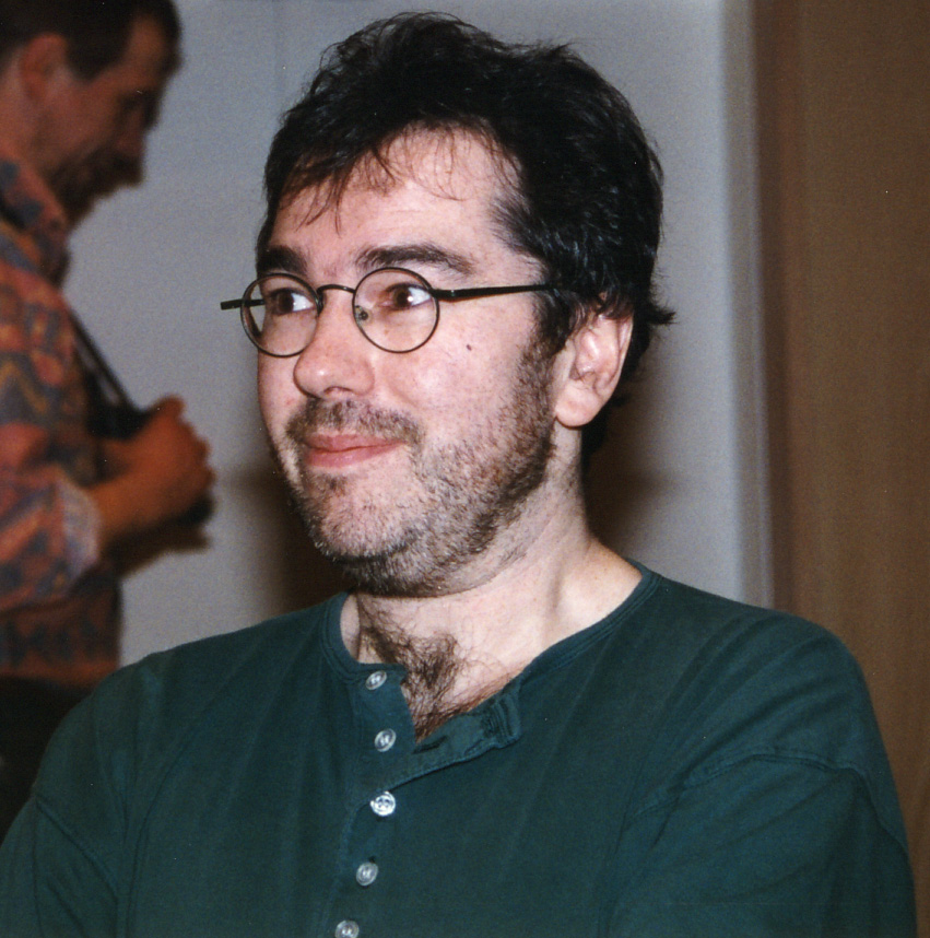 Ian McDonald. Photo was taken at the Science-Fiction-Tage NRW in Dortmund, Germany